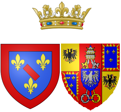 Arms of Maria Fortunata d'Este as Princess of Conti